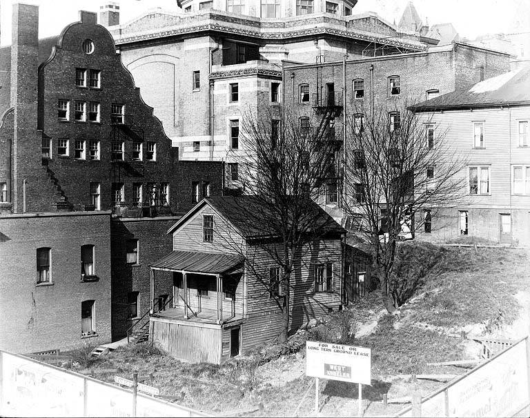 On verso of image: House at N.E. corner of 4th and Marion built by Hiram Burnett destroyed about 1923. The little building in the foreground stood at the N.E. cor. of 4th and Marion. It was built by Hiram Burnett in the Spring of 1865 and I did the painting of it. Destroyed about 1923. C.A. Bagley. Subjects (LCTGM): Burnett, Hiram--Homes & haunts--Washington (State)--Seattle Subjects (LCSH): Dwellings--Washington (State)--Seattle; Fourth Avenue (Seattle, Wash.); Marion Street (Seattle, Wash.); Rainier Club (Seattle, Wash.); Central business districts--Washington (State)--Seattle; Churches--Washington (State)--Seattle; Apartment houses--Washington (State)--Seattle Cannot be before 1908 because First Methodist Episcopal Church is there. Cannot be much later than that because Fourth Avenue has not yet been regraded: compare the photograph at from 1918.